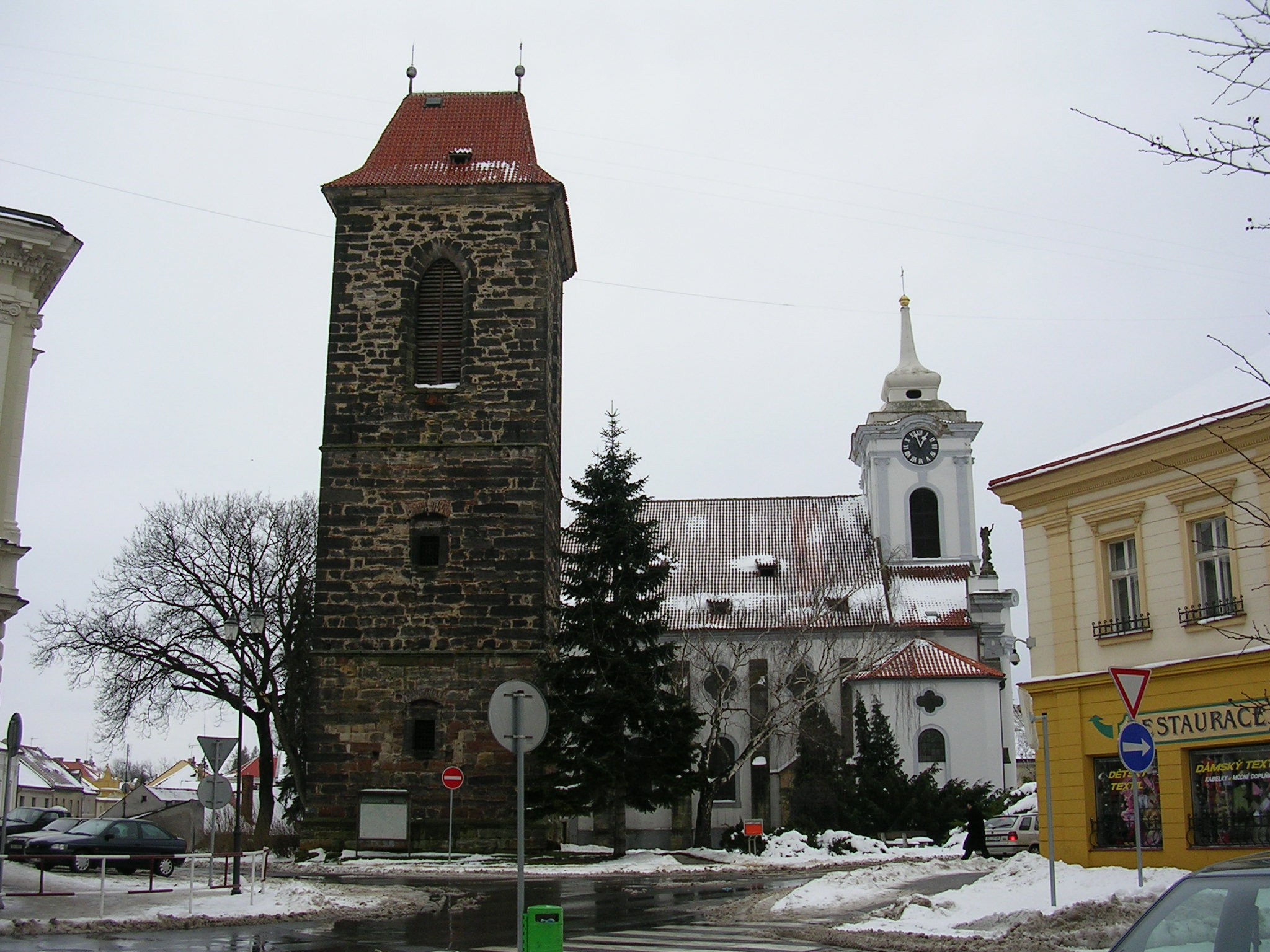 Český Brod, Central Bohemian Region, the Czech Republic. - OpenStreetMap(Info)